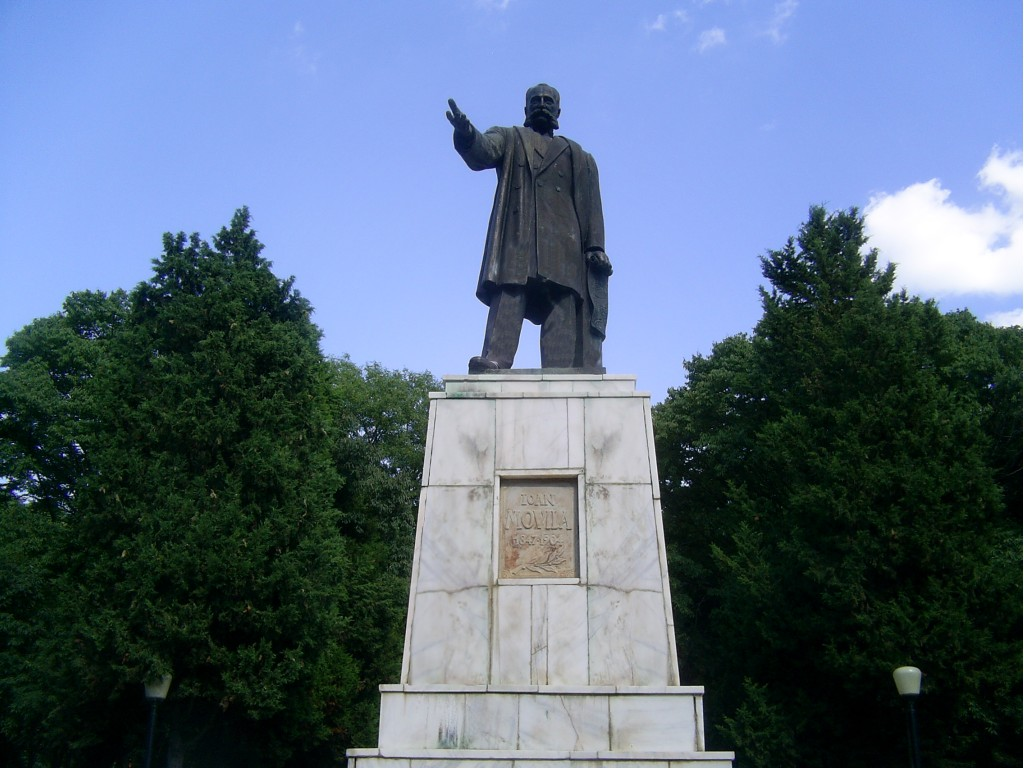 statue of Ioan Movila, in Eforie Sud, Romania, founder of the village and resort